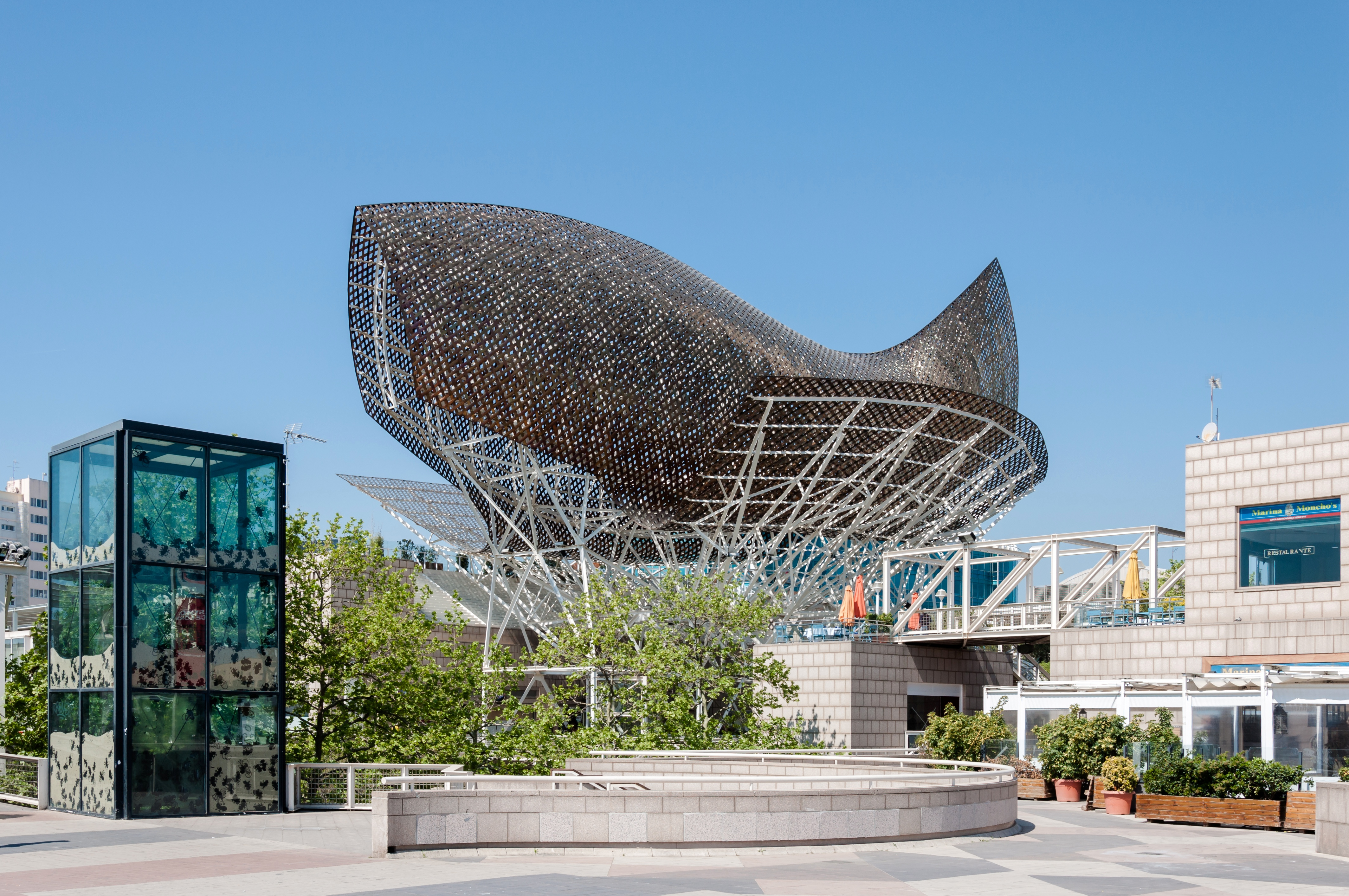 The Canadian architect Frank Gehry designed a golden fish for the Barcelona Olympics in 1992. It is placed at Passeig Marítim de la Barceloneta (Port Olímpic) in front of the Barcelona Art Hotel and serves as roof for a commercial center. The structure has a height of 35 m and a length of 56 m.